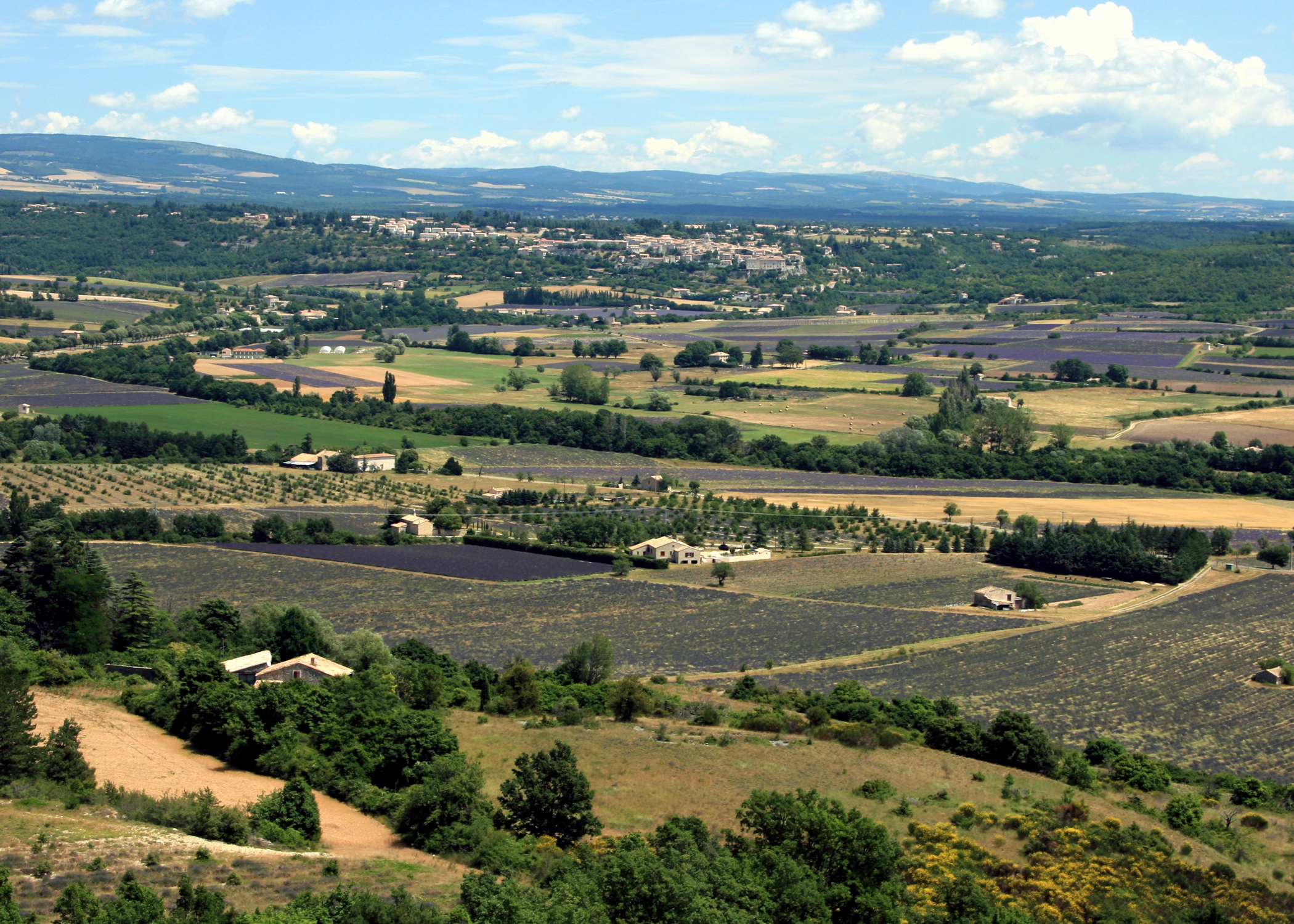 Sault General view